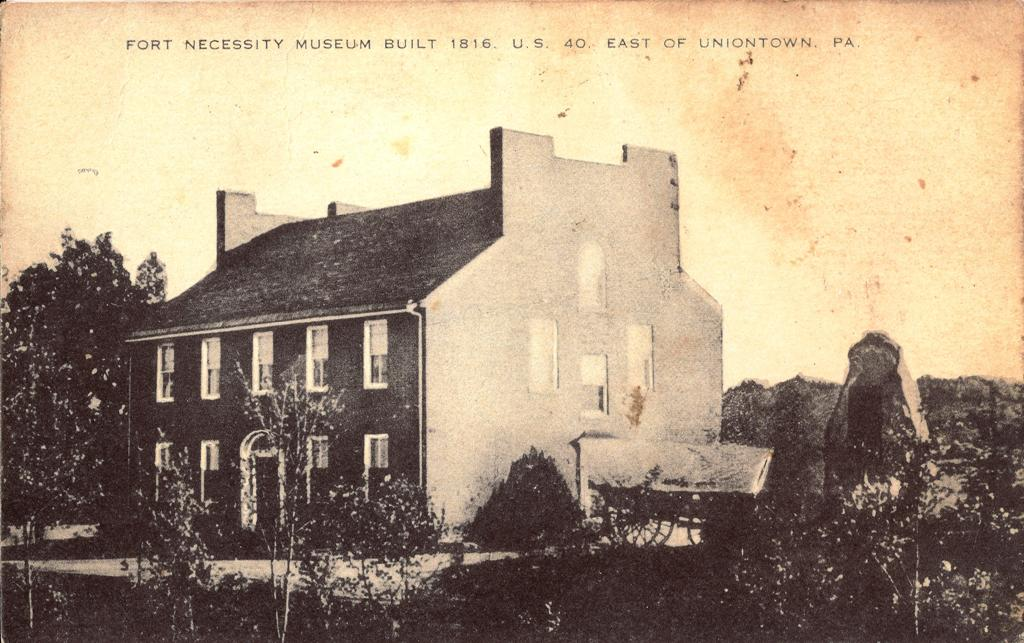 Old Postcard of Fort Necessity Museum.